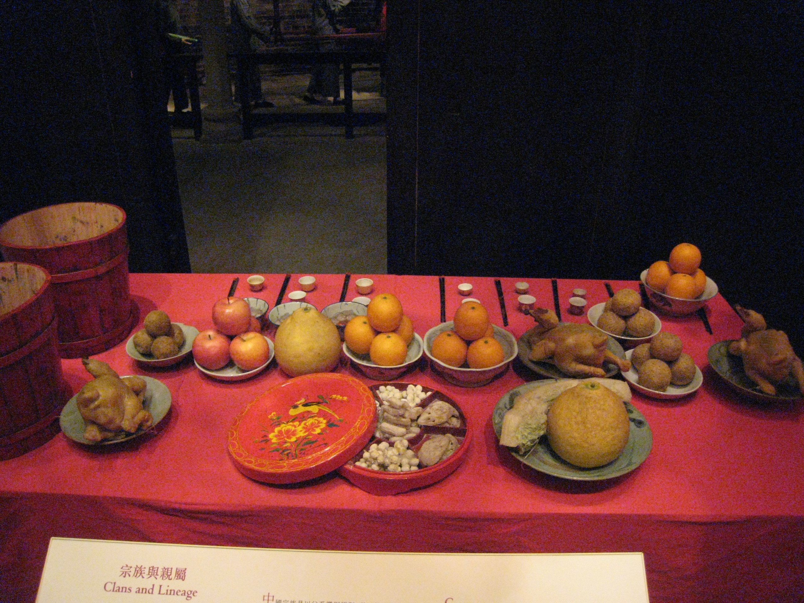 Offerings to the ancestors.